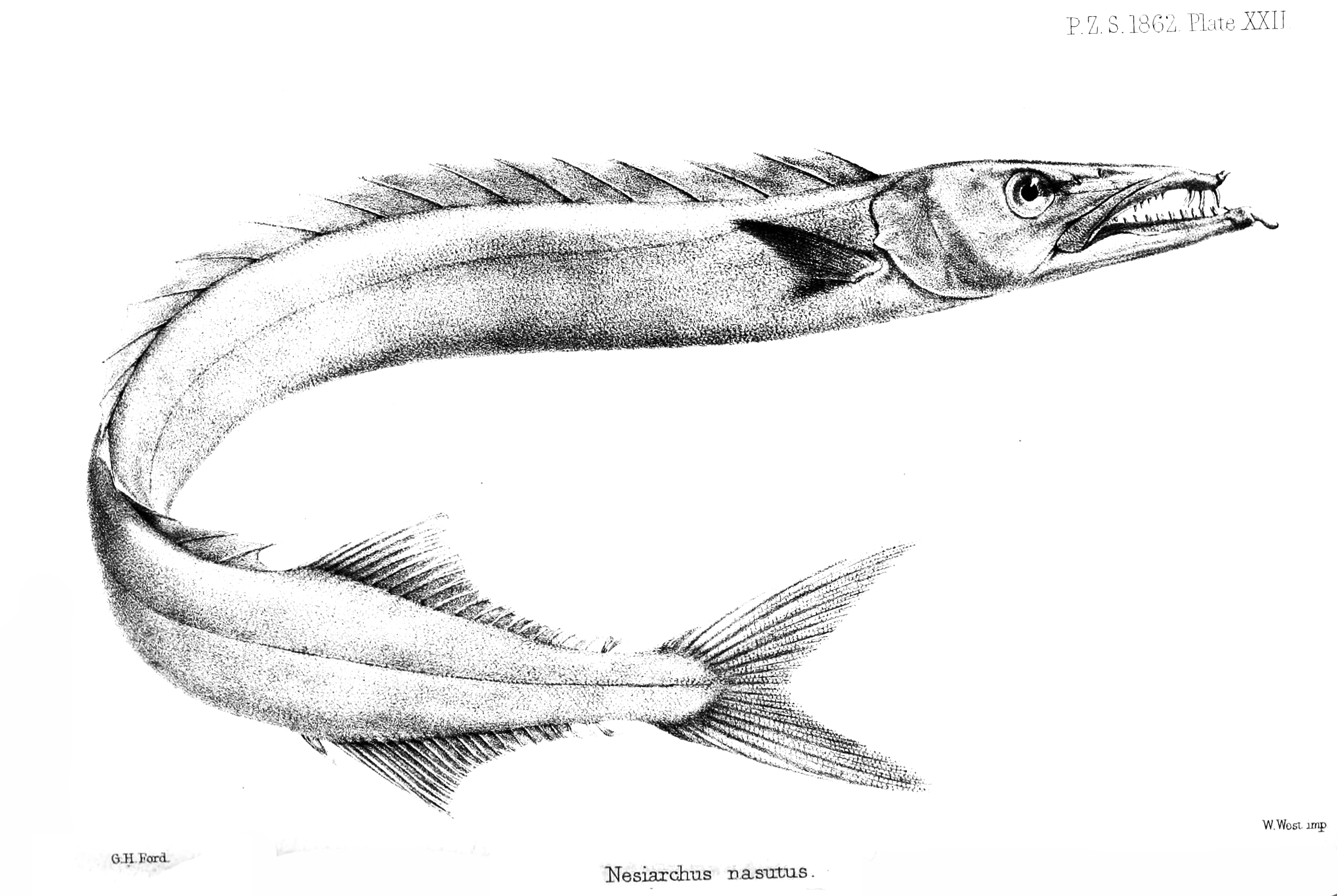 Black Gemfish